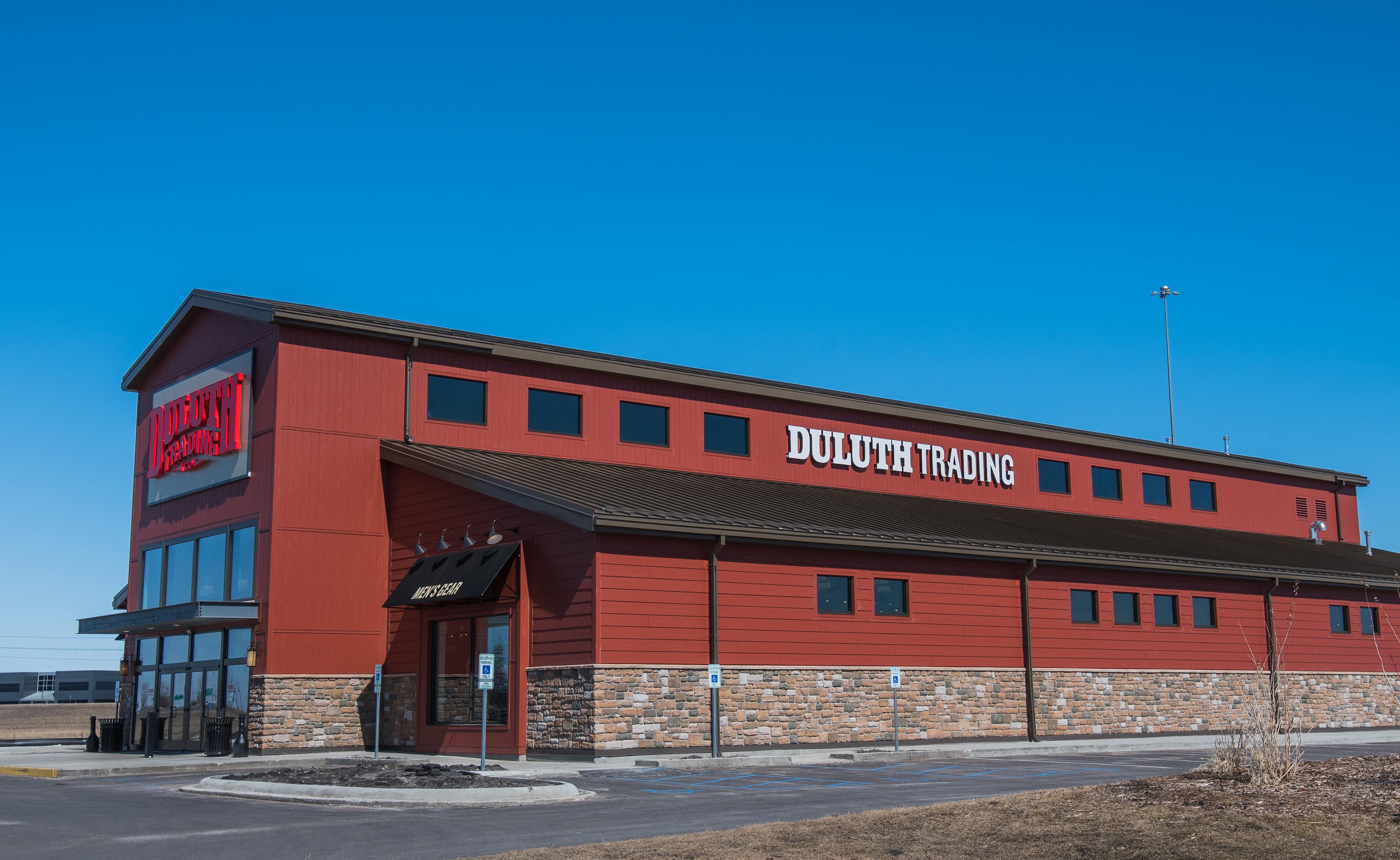 Duluth Trading Company store at 2261 Rustad Lane East, West Fargo, North Dakota. - © 2018 Tony Webster +1 202-930-9200